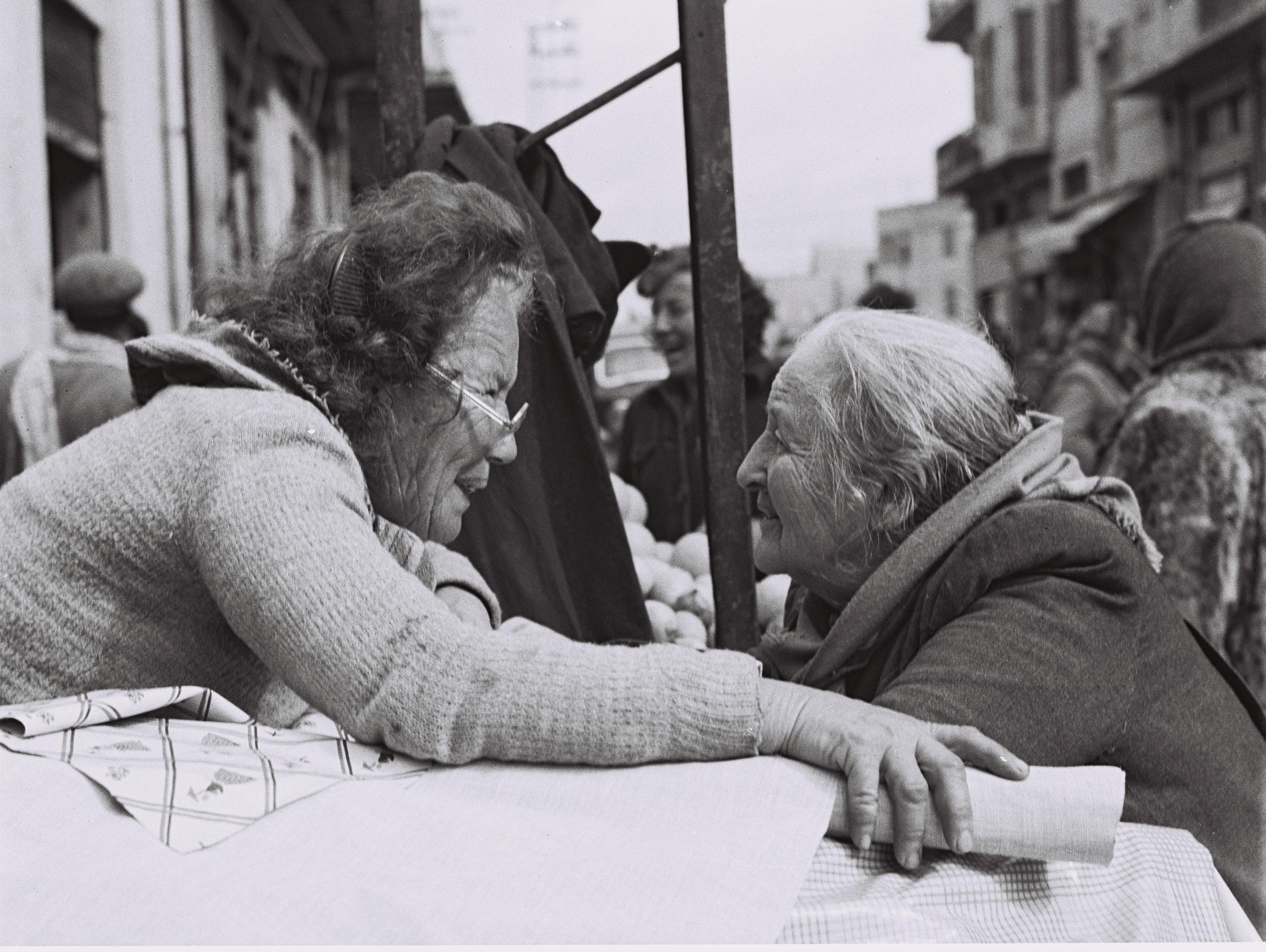 Israel's First Lady, Rachel Ben-Zvi (left), talking to an old woman at The Carmel Market in Tel Aviv